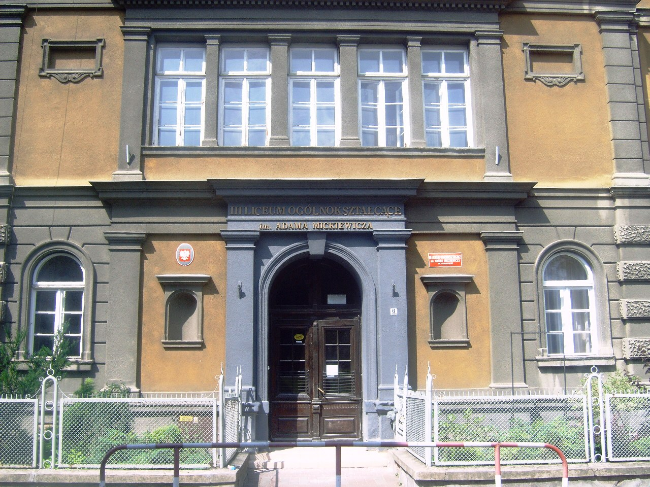 III Liceum im. Mickiewicza in Tarnów in Poland.